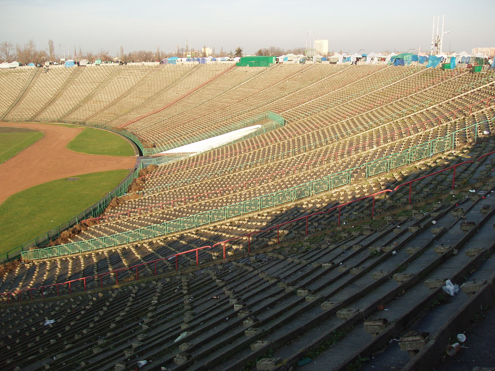 10th-Anniversary Stadium, also knwon as Stadion Dziesięciolecia, in Warsaw, Poland.